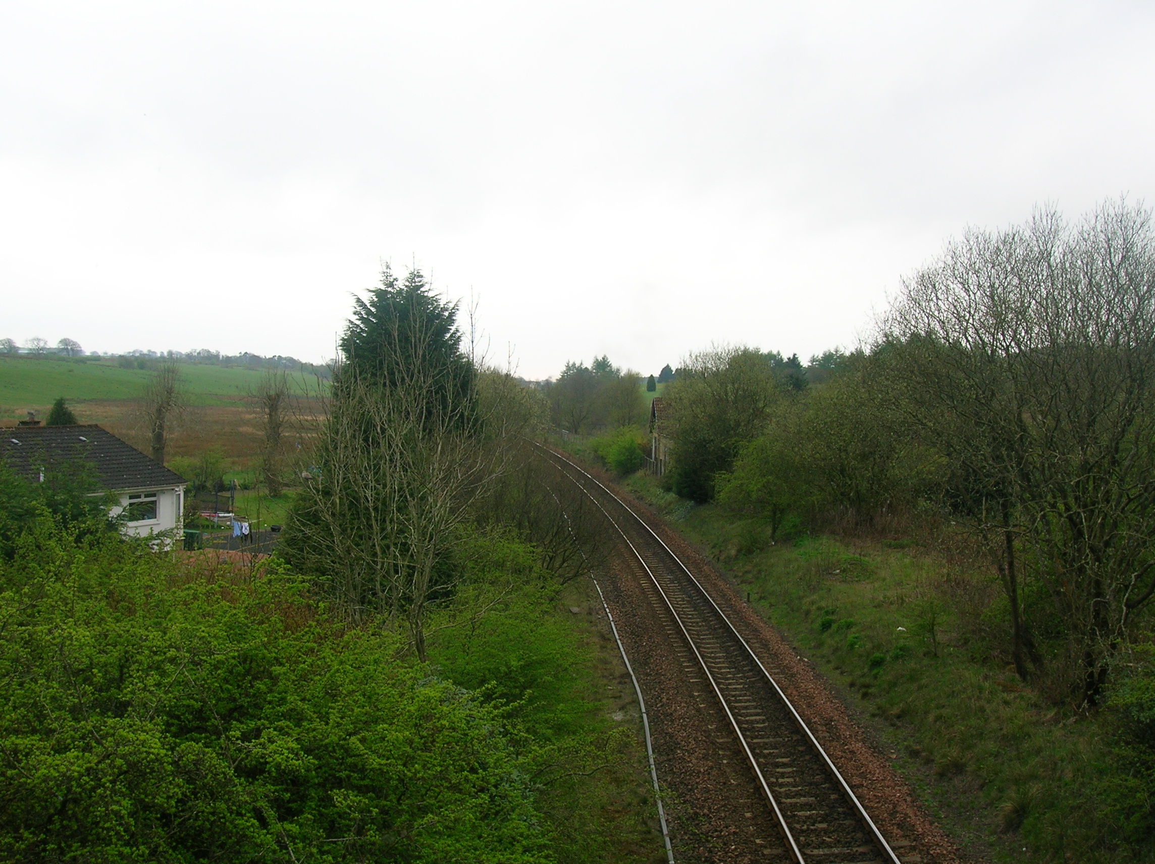 The site of the old Caldwell and later Uplawmoor railway station on the Glasgow - Kilmarnock - Dumfries - Carlisle line. 2007. Rosser 15:19, 21 April 2007 (UTC)